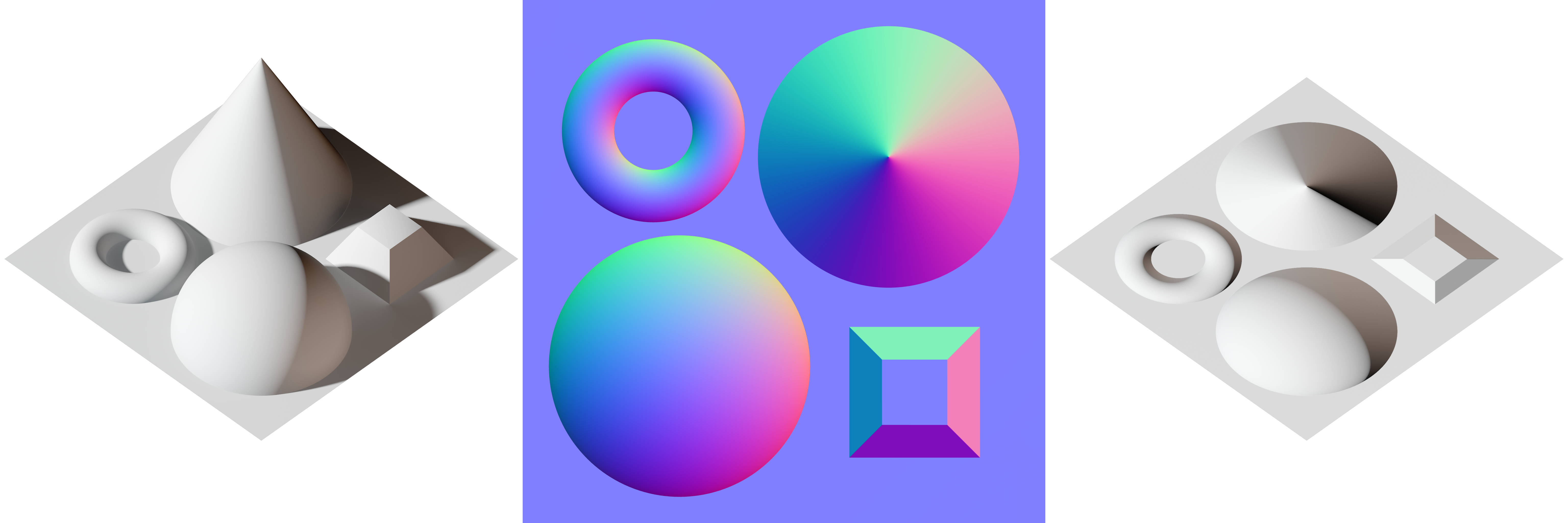 An example scene showing the function of a normal map. On the left, an example scene. In the middle, a normal map created from the geometry in this scene (tangent mapping to the horizontal plane). On the right, the result of applying this map to a horizontal plane. This file was created with Blender.